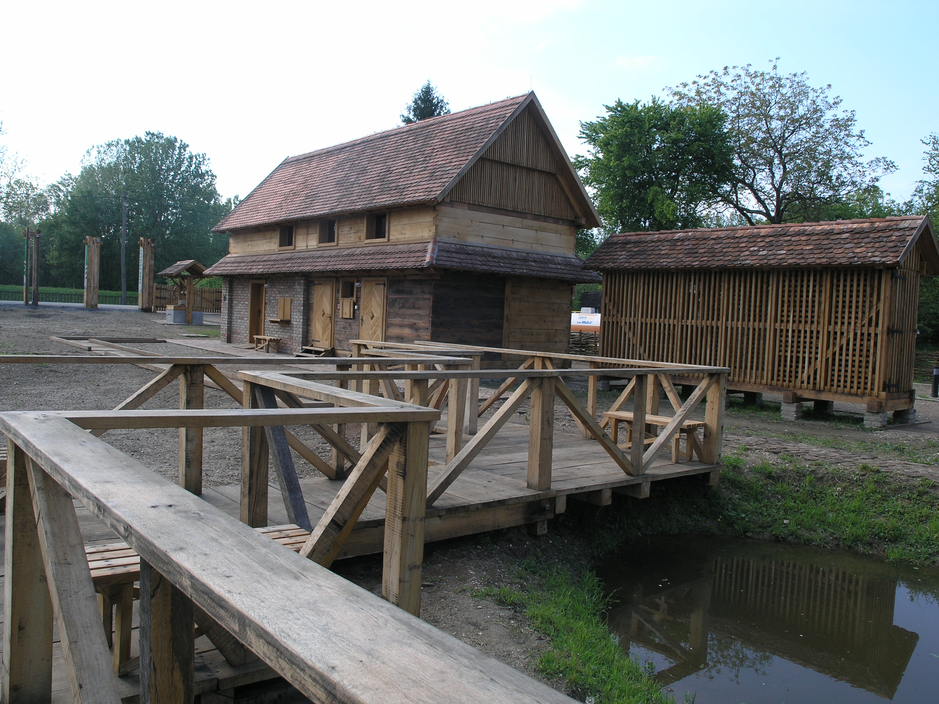 Erbaut im Jahr 1913, vermutlich transloziertes Haus, genutzt für Ausstellungen, Treffpunkt für Führungen, Basis der Ranger